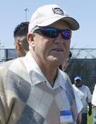 SJSU Alumnus Bill Walsh and Spartan Head Football Coach Dick Tomey